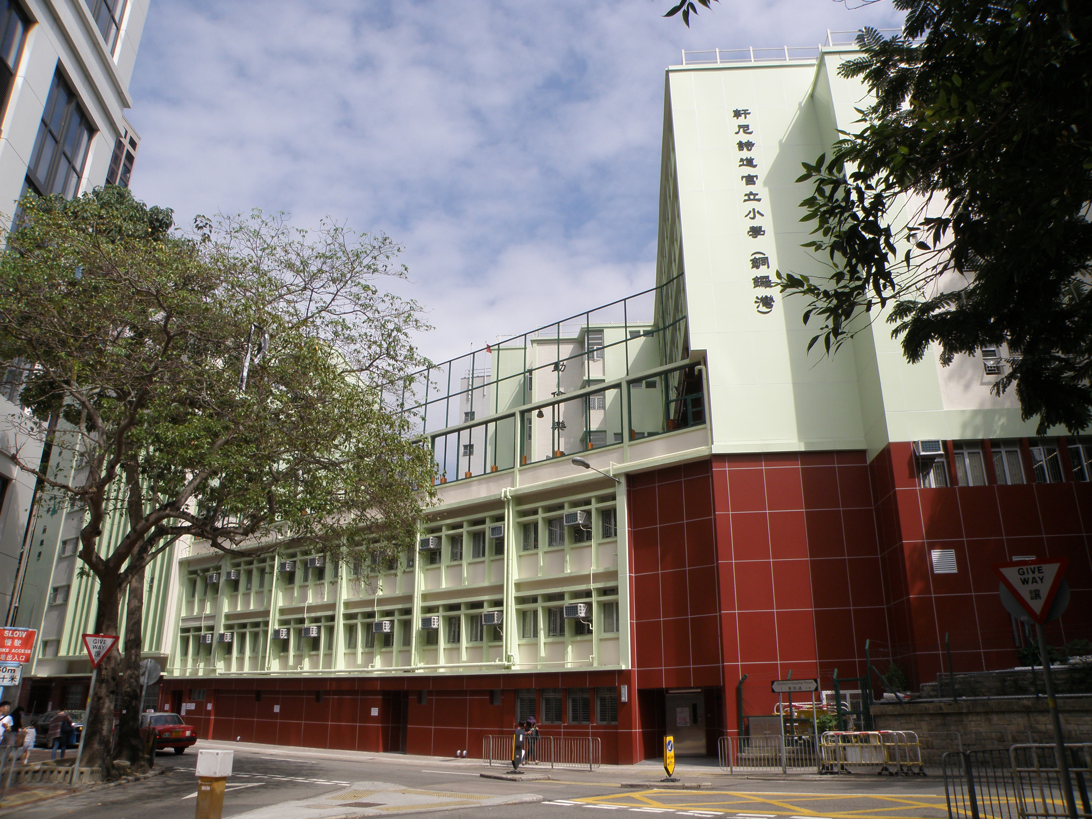 Hennessy Road Government Primary School in Causeway Bay, Hong Kong.